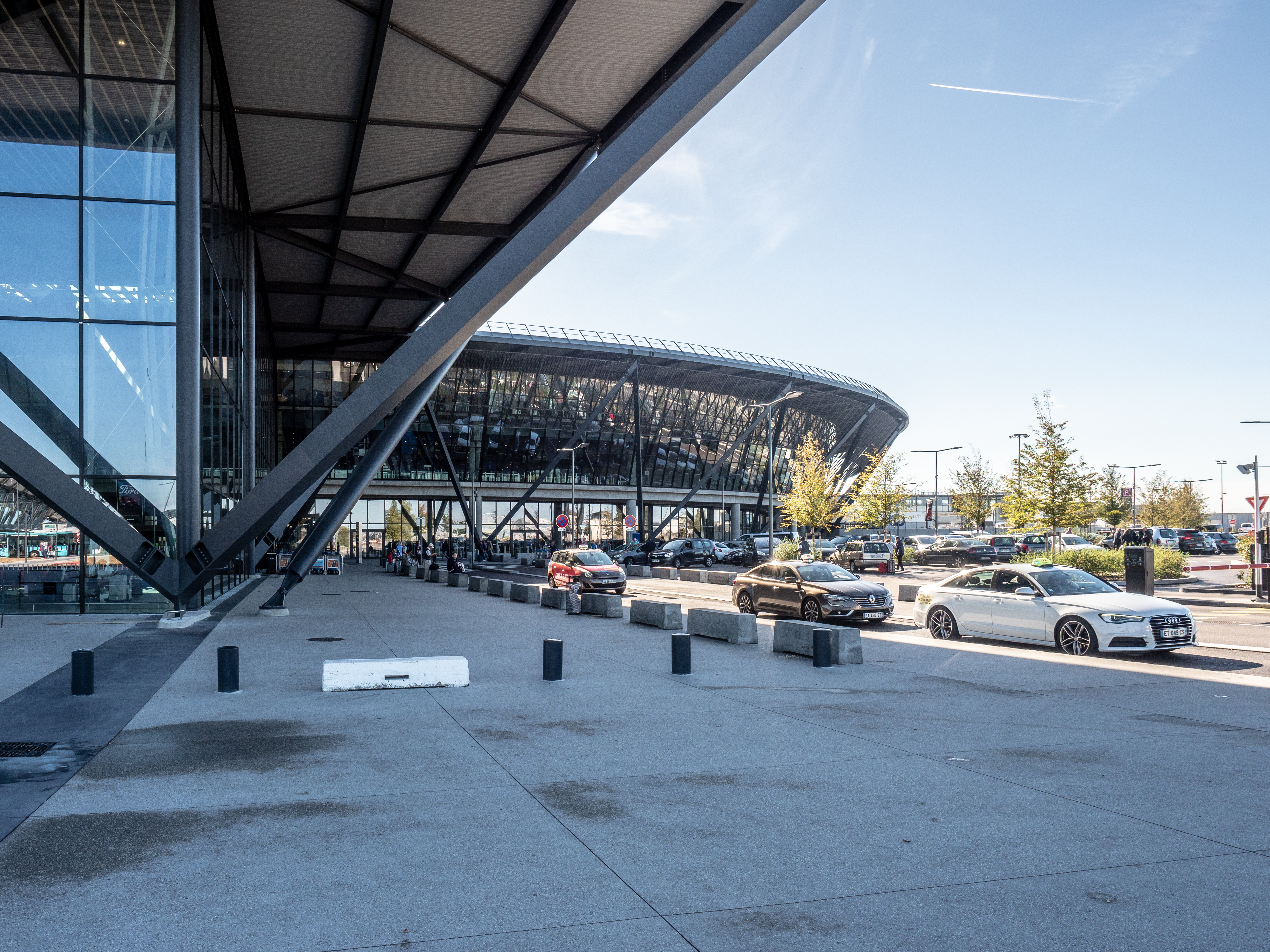 Lyon Airport Terminal 1